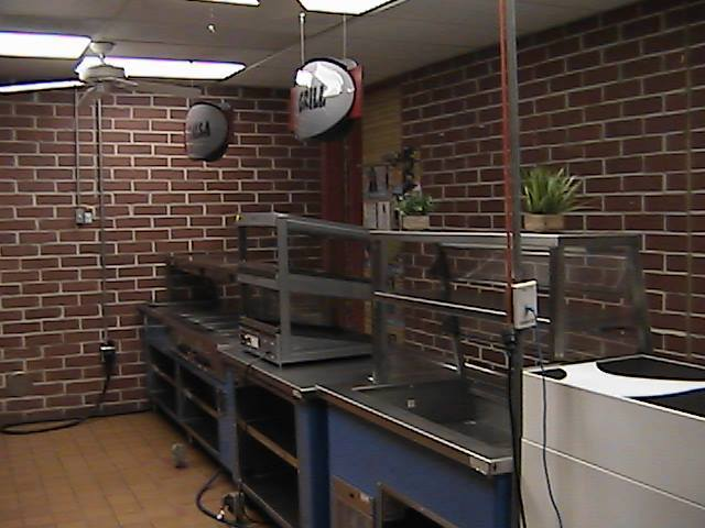 Stations set up at Crossroads Cafe at LaBelle High School in LaBelle, Florida (also known as "The Hitching Post," the cafeteria's name prior to Sodexo).